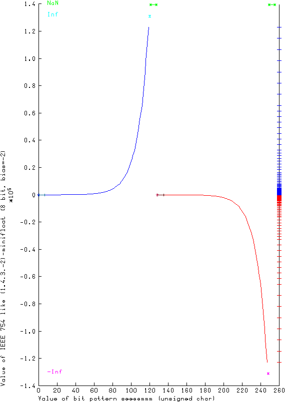 Values of minifloats with 1 sign bit s, 4 exponent bit e, 3 mantissa bit m and a bias of -2 to represent IEEE-754-like floating point values in the integer range. On the x-axis are the integral decimal values of the bit patterns seeeemmm. The right part contains a vertical real line with the values of all finite minifloats. The varying densitity is typical for any floating point system. The different classes of IEEE 754 floating point values (NaN, infinite, normal, subnormal and zero) are highlighted with different colours and marked with symbols. NaN has the highest value and infinite has its own numerical value 2^17. Positive values are in blue and cyan, negative values are in red and magenta; NaN is represented in green.